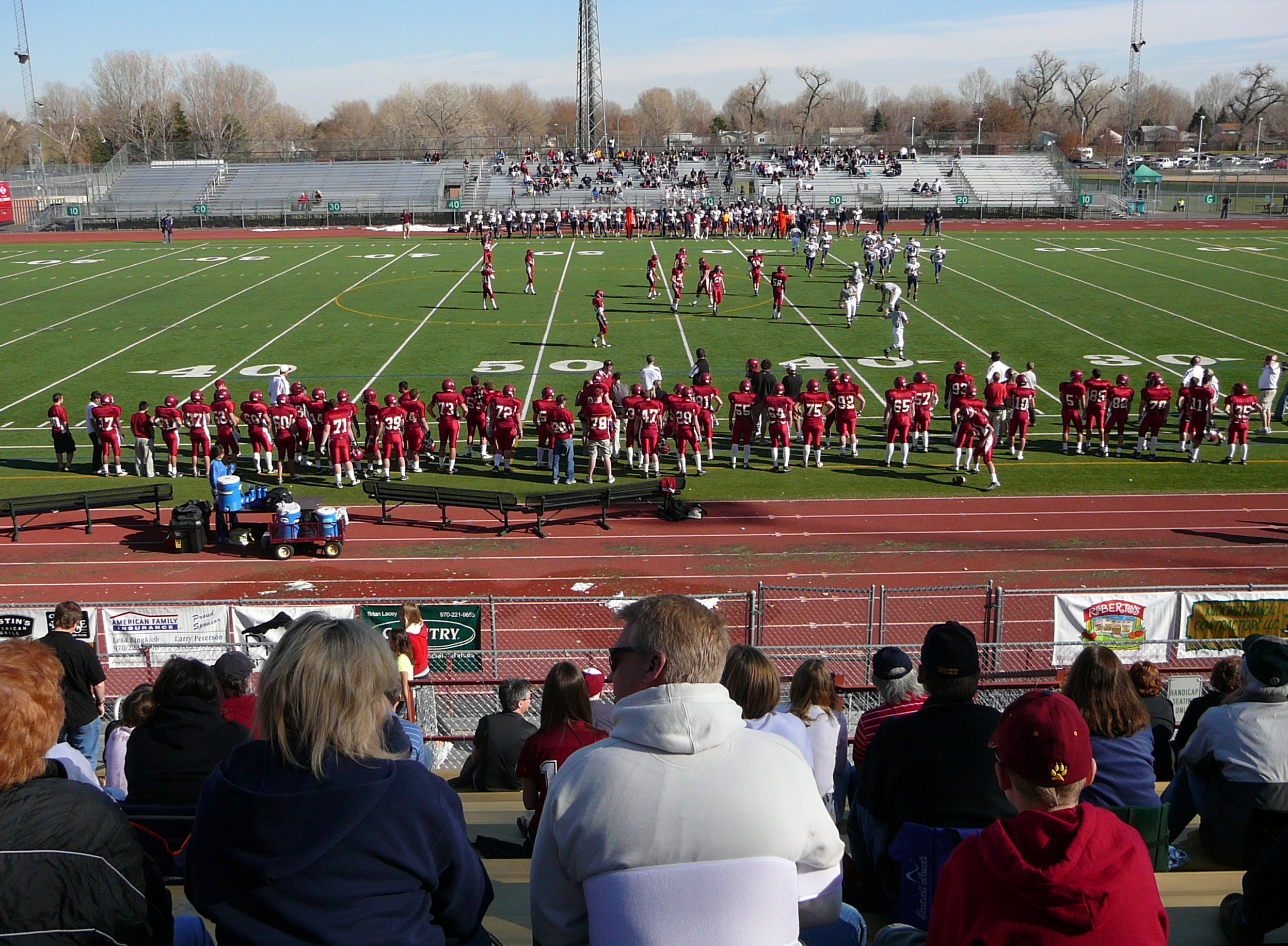 the stage